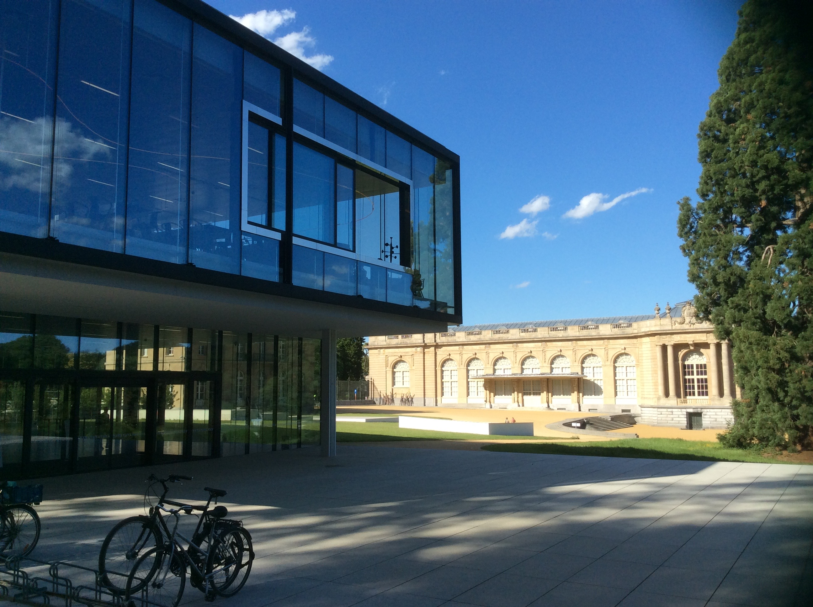 Entrance building Royal Central African Museum